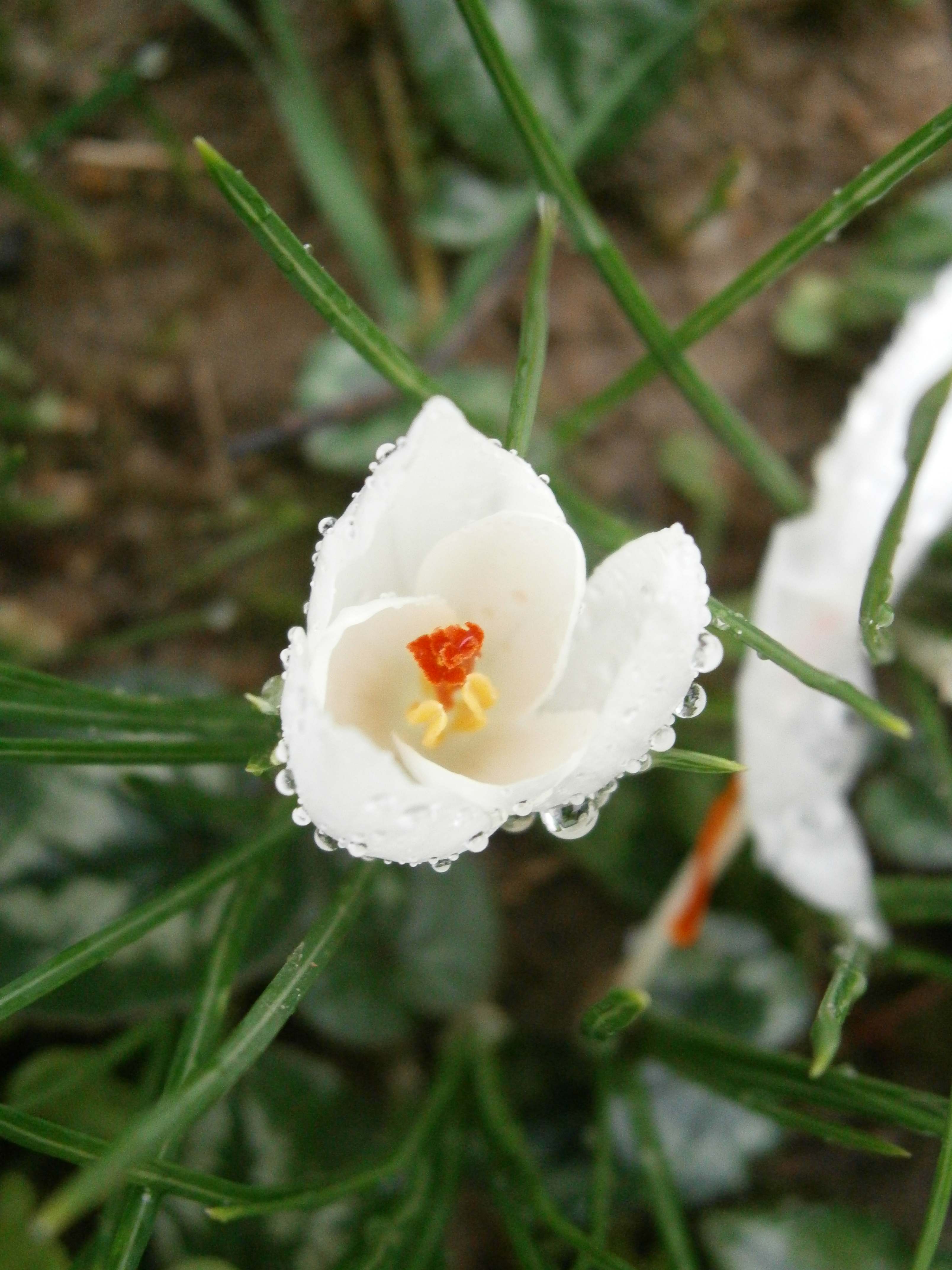 Crocus cartwrightianus 'Albus' opening